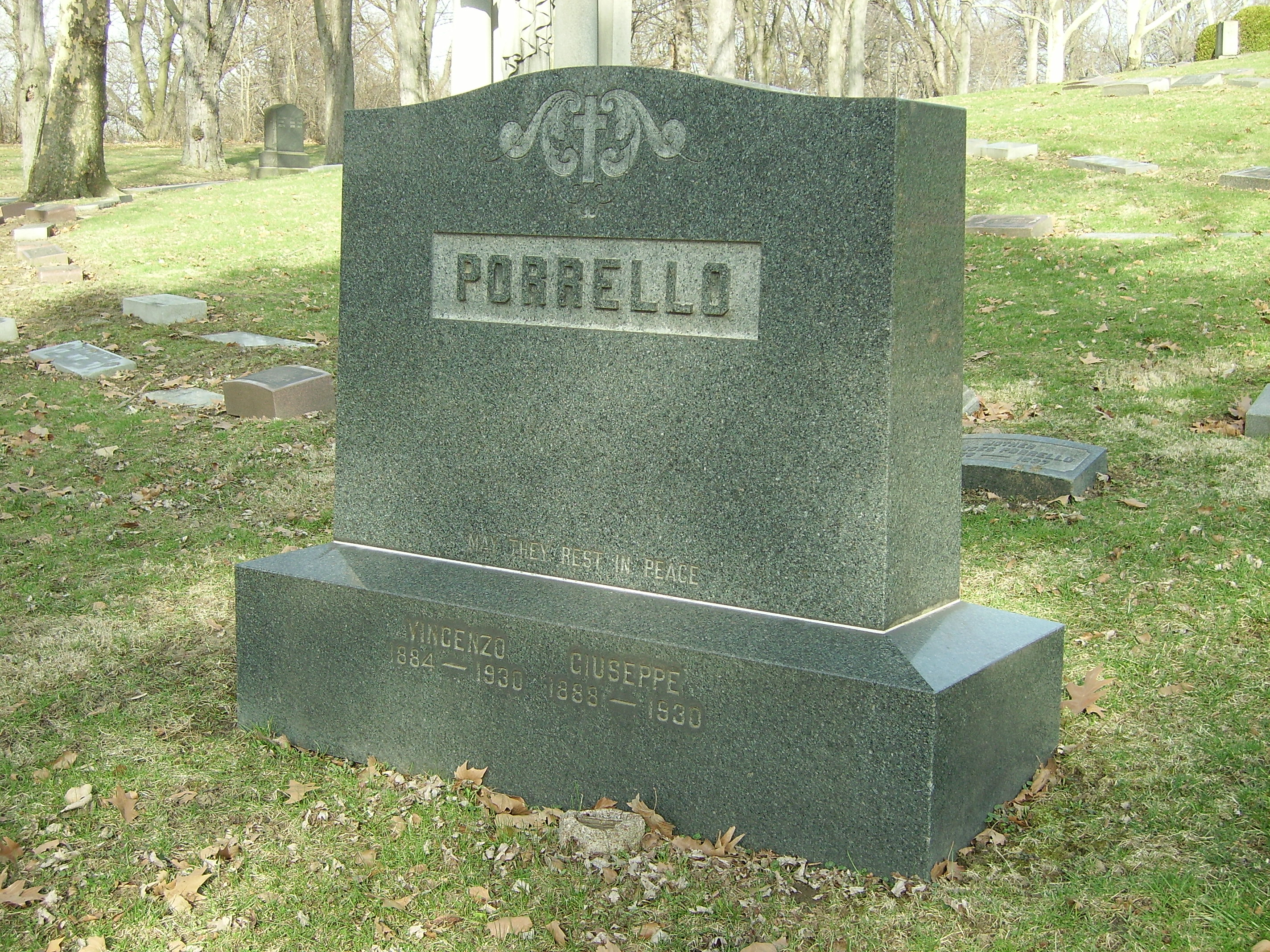 Calvary Cemetery grave marker for brothers Giuseppe "Joe" and Vincenzo "Jim" Porrello, one time bosses of the Cleveland, Ohio Porello Gang.